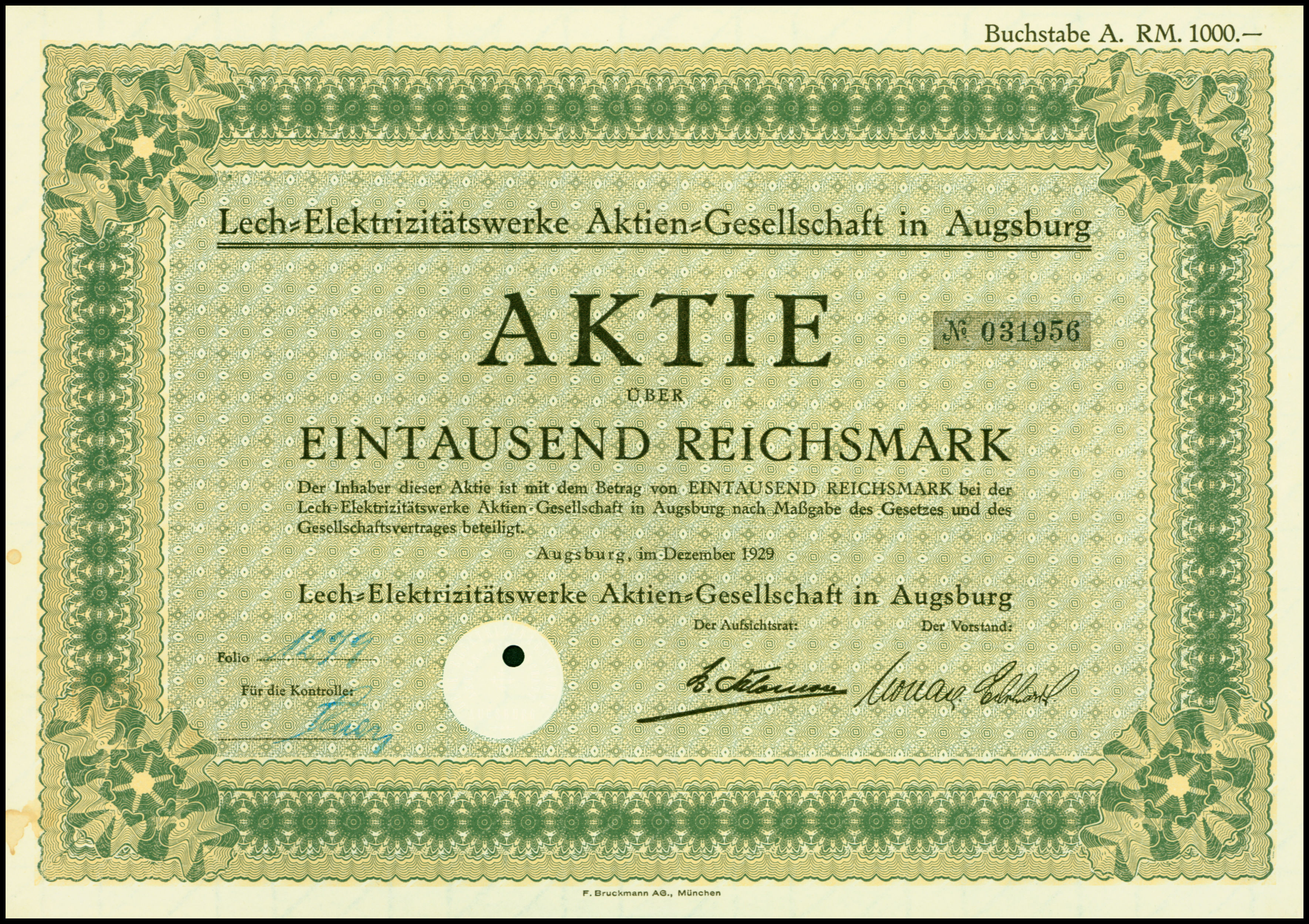 Share of the Lech-Elektrizitätswerke AG, issued December 1929